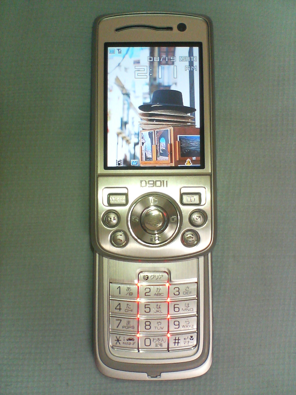 NTT DoCoMo FOMA D901i by Mitsubishi Electric, Sterling Silver, open. NTTドコモ FOMA D901i、三菱電機製、スターリングシルバー、開いた状態。